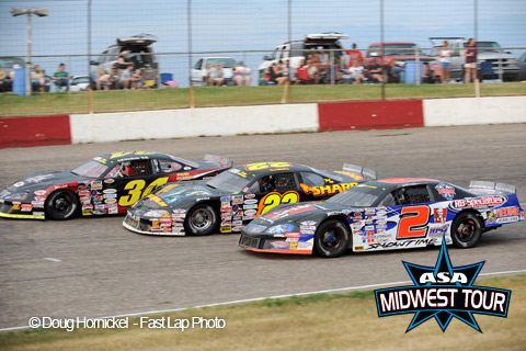 3-wide racing at I-94 Speedway